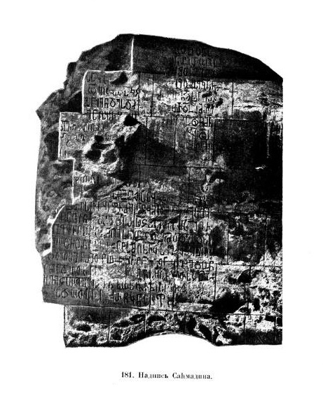 Ani. Georgian inscriptions. (Sahmadin)